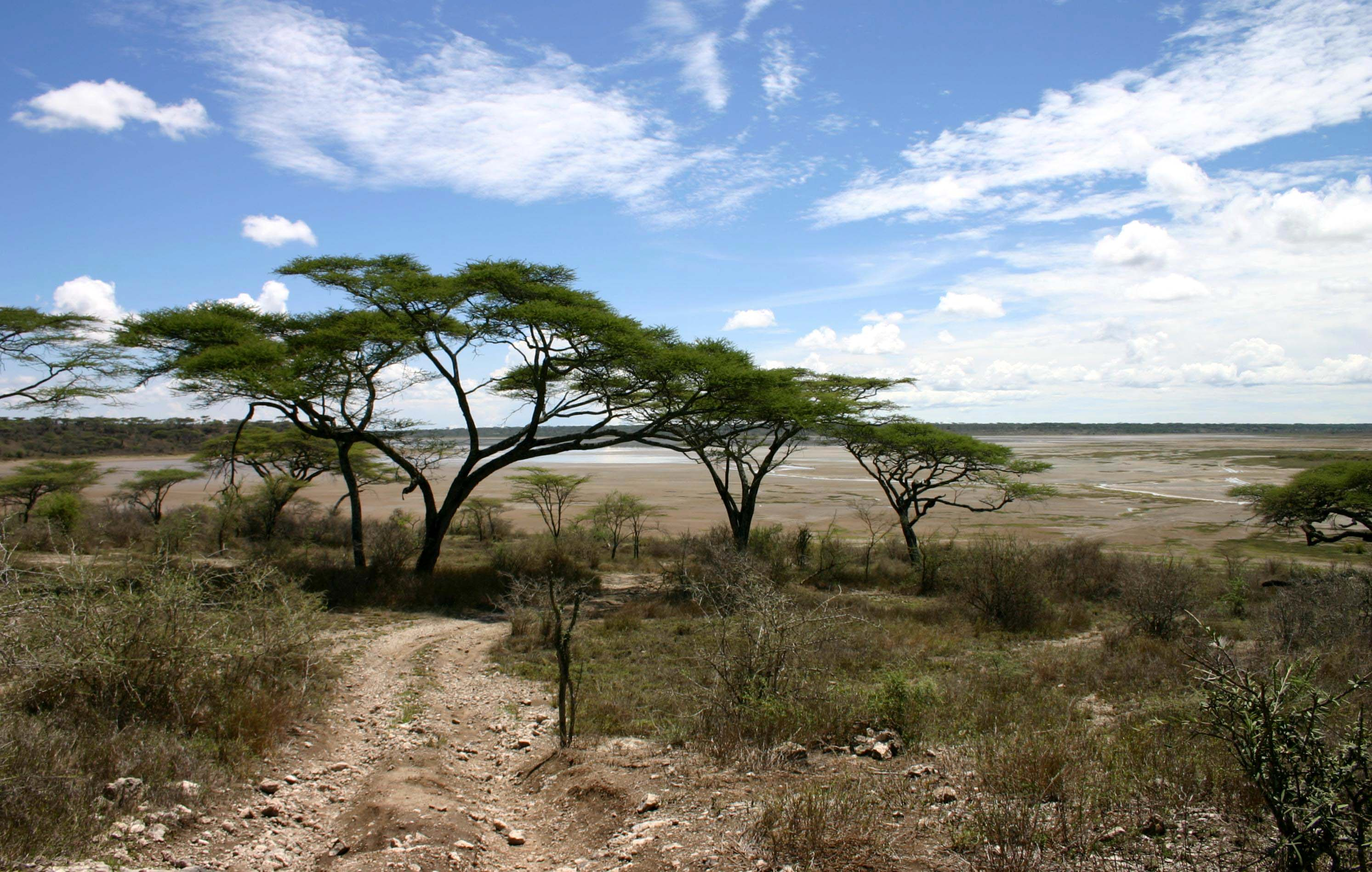 Acacia Tree in the Serengeti, Tanzania